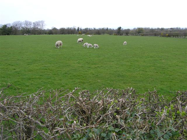 Ballyarnot Townland Looking west from the Ballyarnot Road